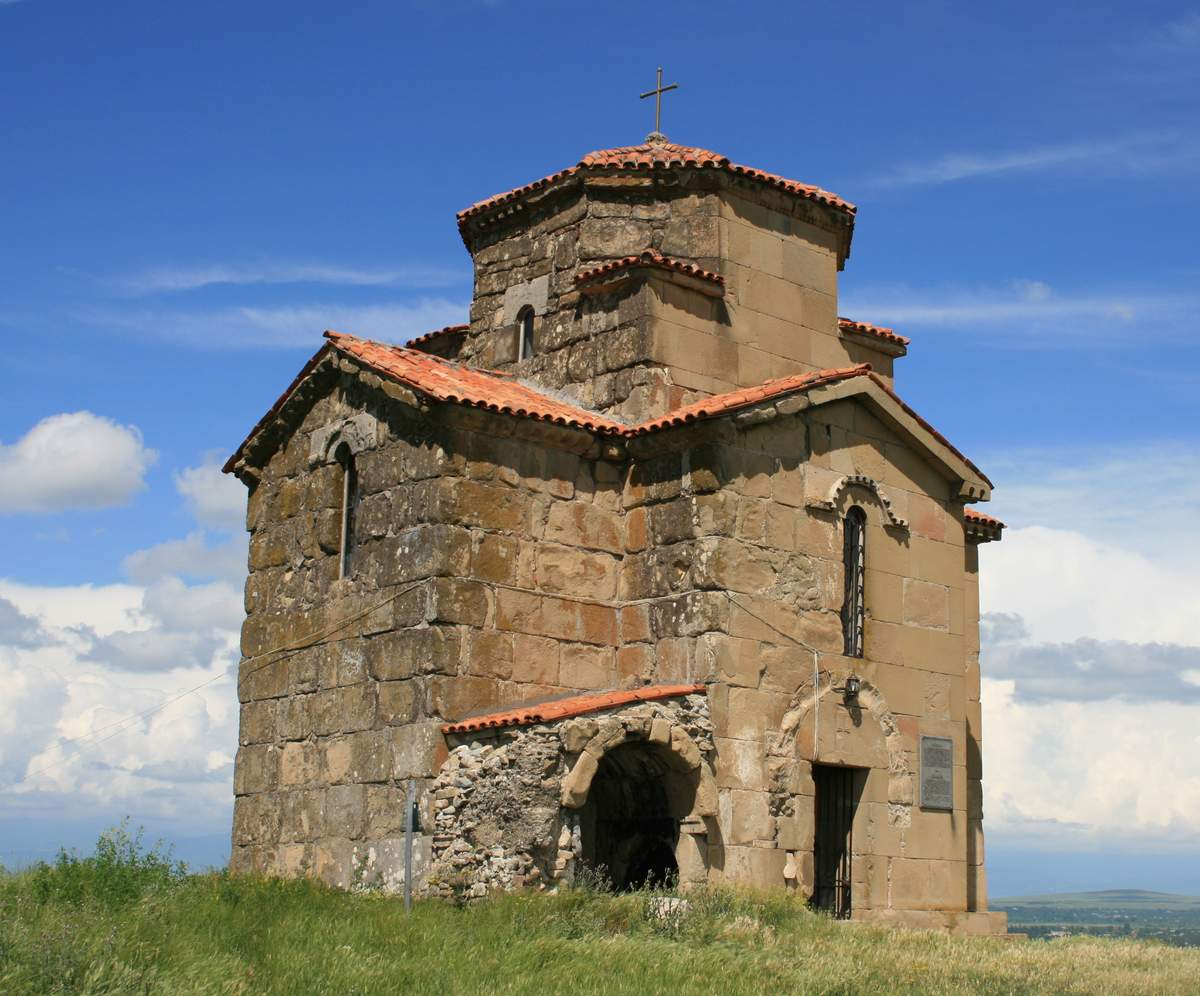 Samtsevrisi monastery complex. A 7th-century church